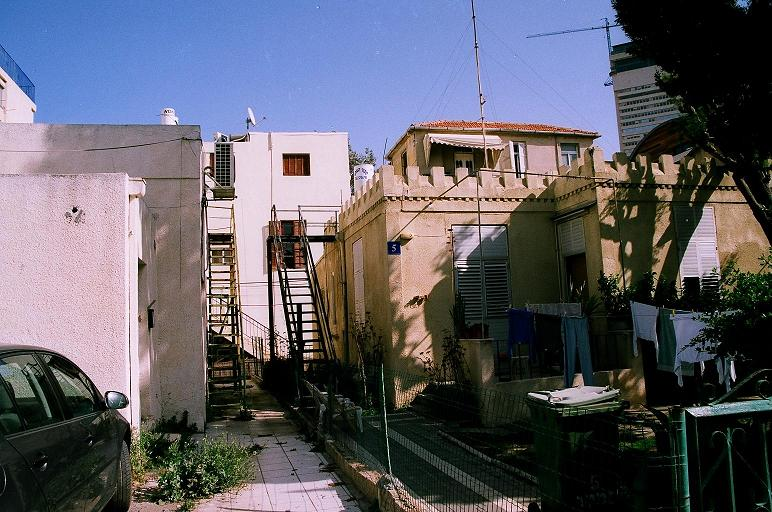 Houses in APC Workers Neighbourhood